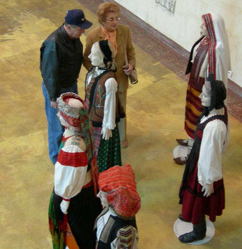 Museum of the Romanian Peasant, Bucharest, Romania. A couple in modern dress look at representations of historic Romanian peasant costume.